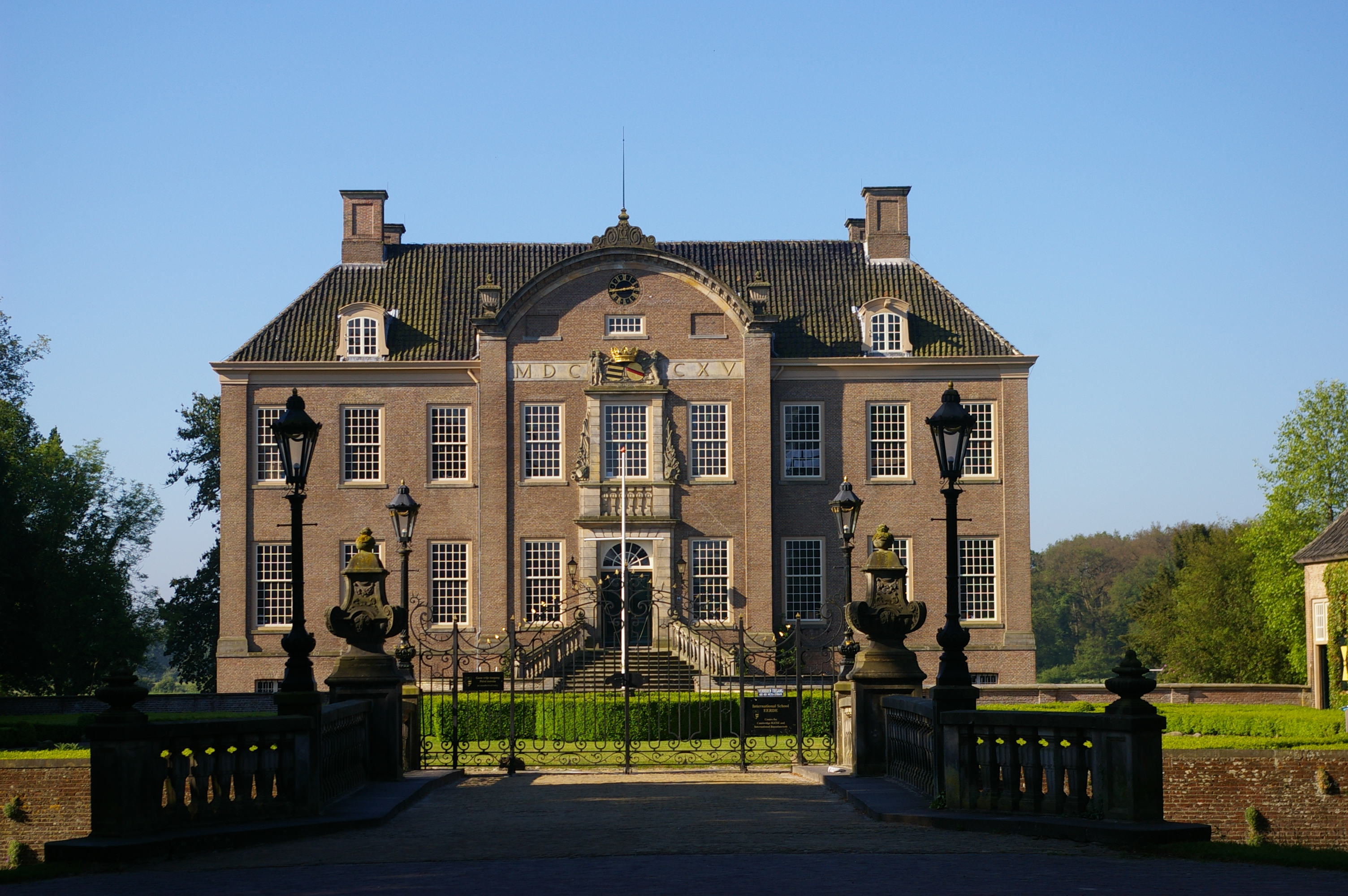 Eerde Castle, near Ommen, the Netherlands, built in 1715, now used as an international school. Listed in the Dutch register of national monuments as # 31471.